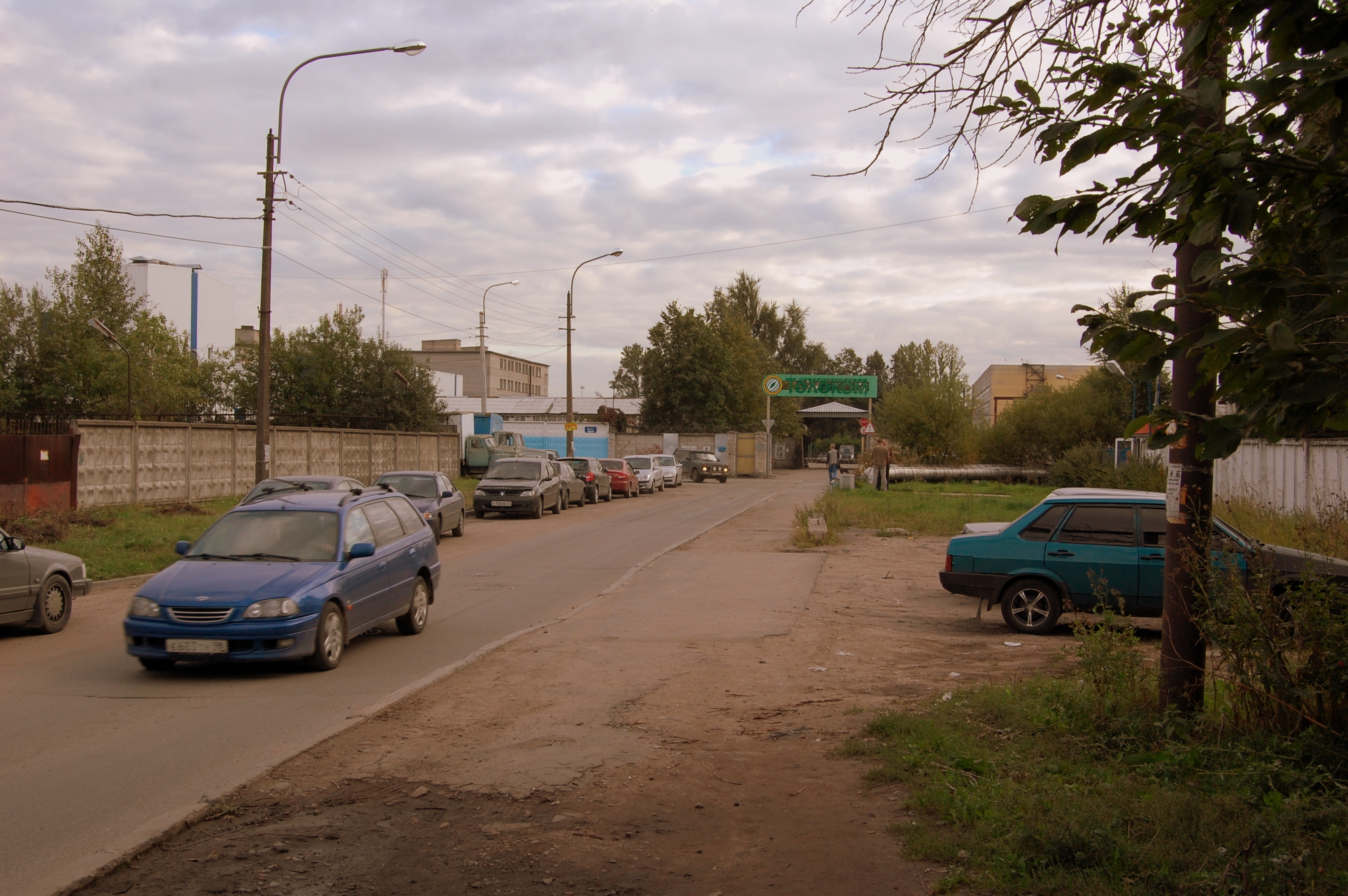 4th Predportovy Lane (Saint Petersburg)